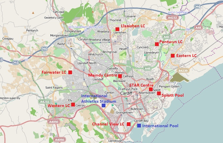 Locations of leisure centres in Cardiff OpenStreetMap cut-out (or derivative work based on it): without further description This cut-out may be incomplete, and may contain errors, or may be obsolete. Don't rely solely on it for navigation. Seek for the present state in original context on the OpenStreetMap wiki page